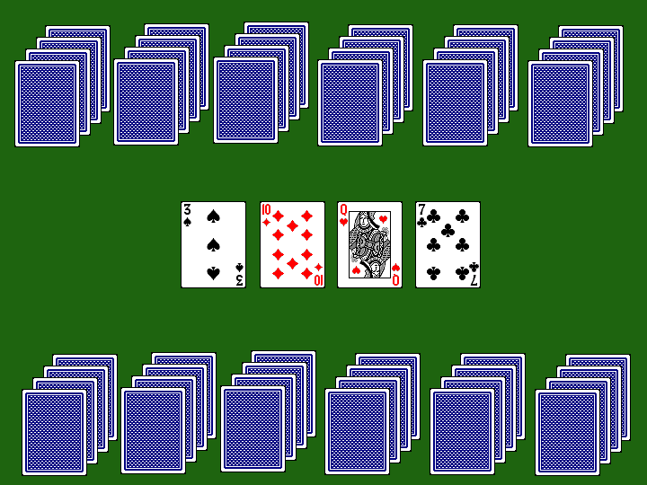 Assembled from: File:Cardset-oxymoron-07c.gif File:Cardset-oxymoron-03s.gif File:Cardset-oxymoron-10d.gif File:Cardset-oxymoron-back191.gif File:Cardset-oxymoron-12h.gif